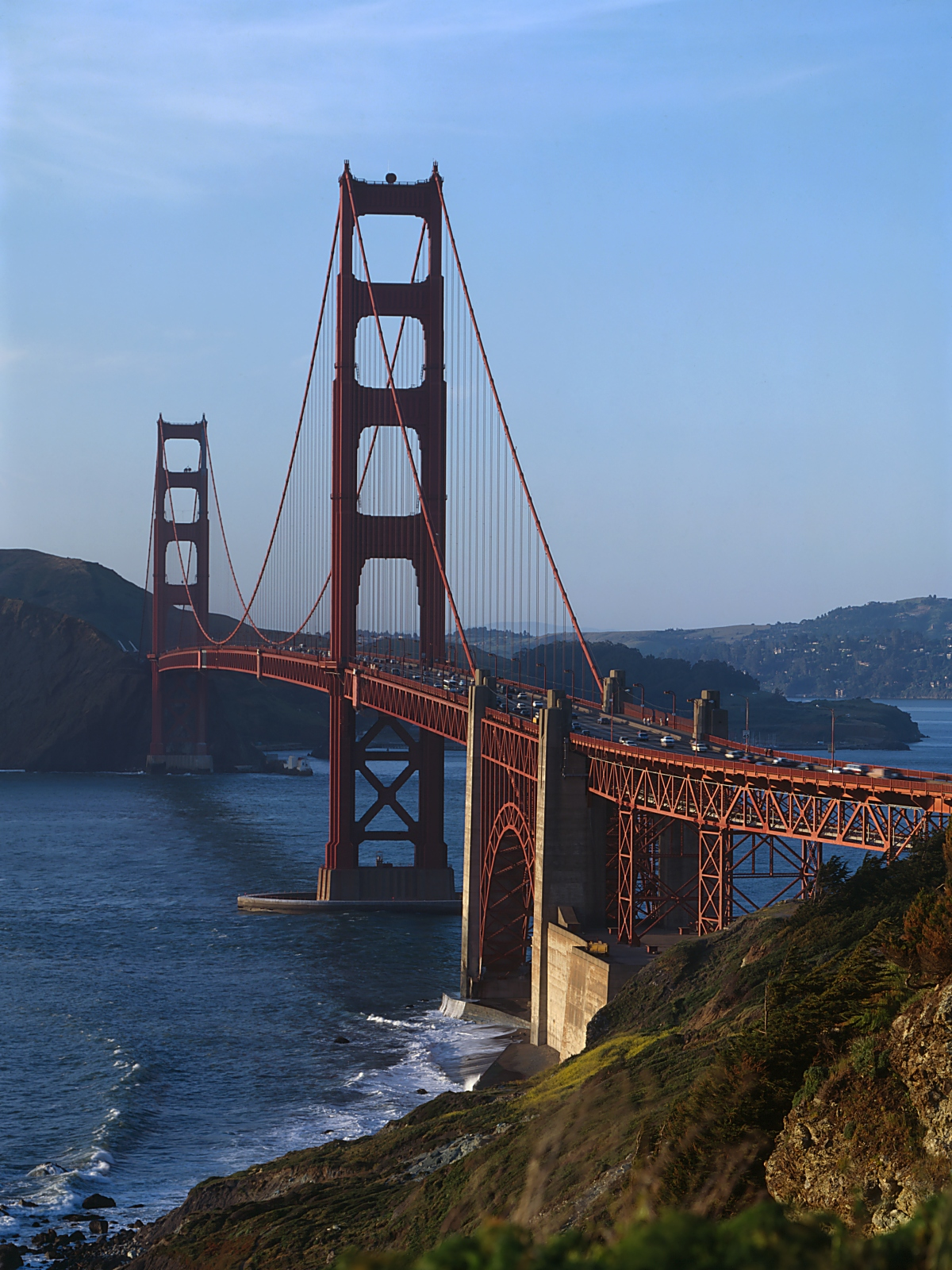 View north from the Presidio of San Francisco, of the western side and the towers of the Golden Gate Bridge. "GENERAL VIEW, LOOKING NORTH, SHOWING THE 'SEA SIDE' OF THE STRUCTURE." HAER—Historic American Engineering Record images of the Golden Gate Bridge (1984).